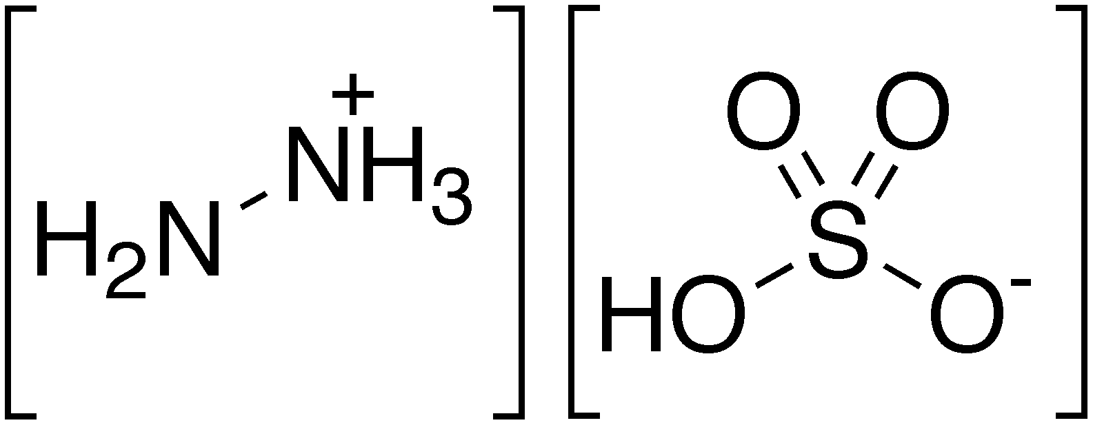 chemical structure of hydrazine sulfate